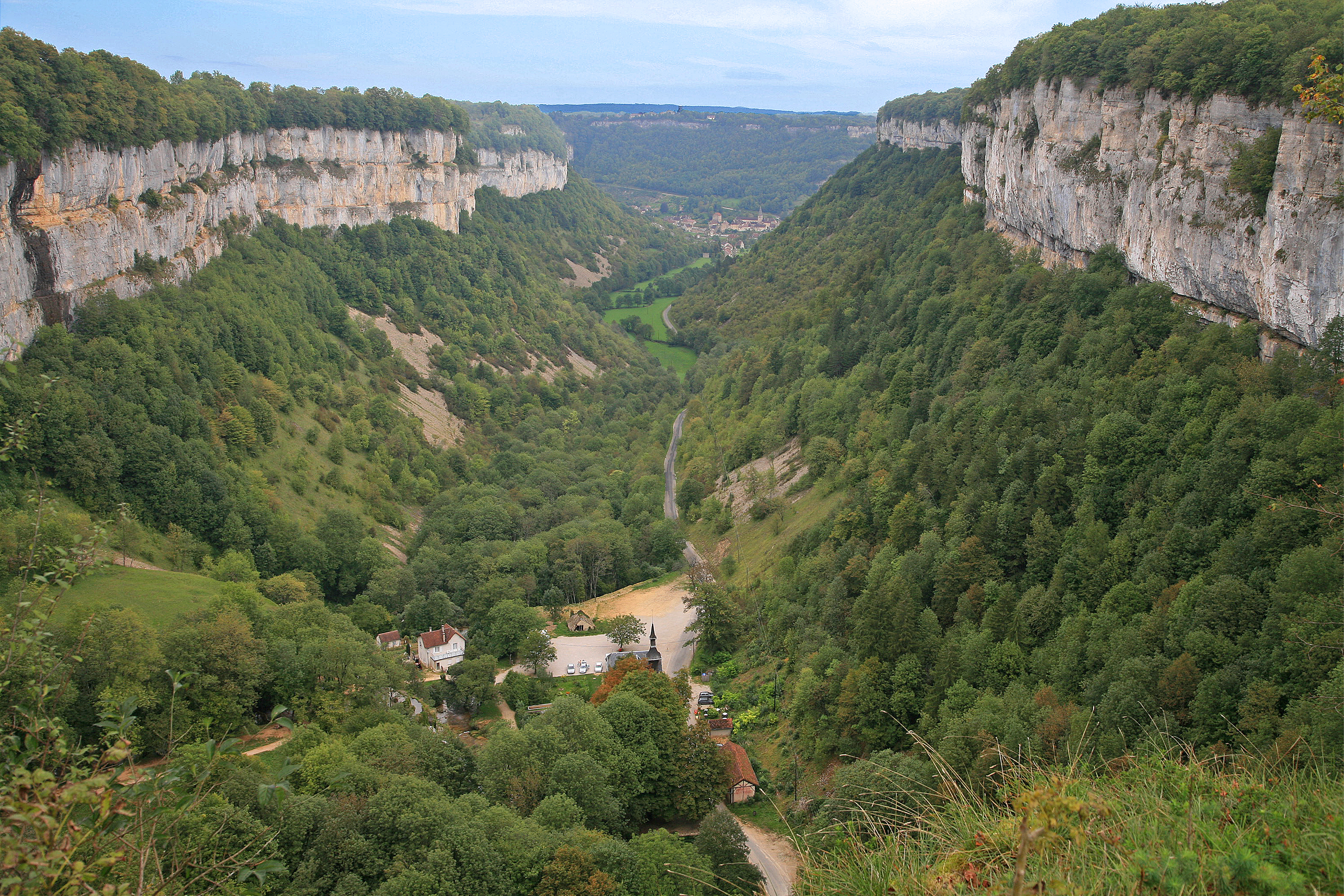 Cirque de Baume overlooking Baume-les-Messieurs (Département Jura, France).